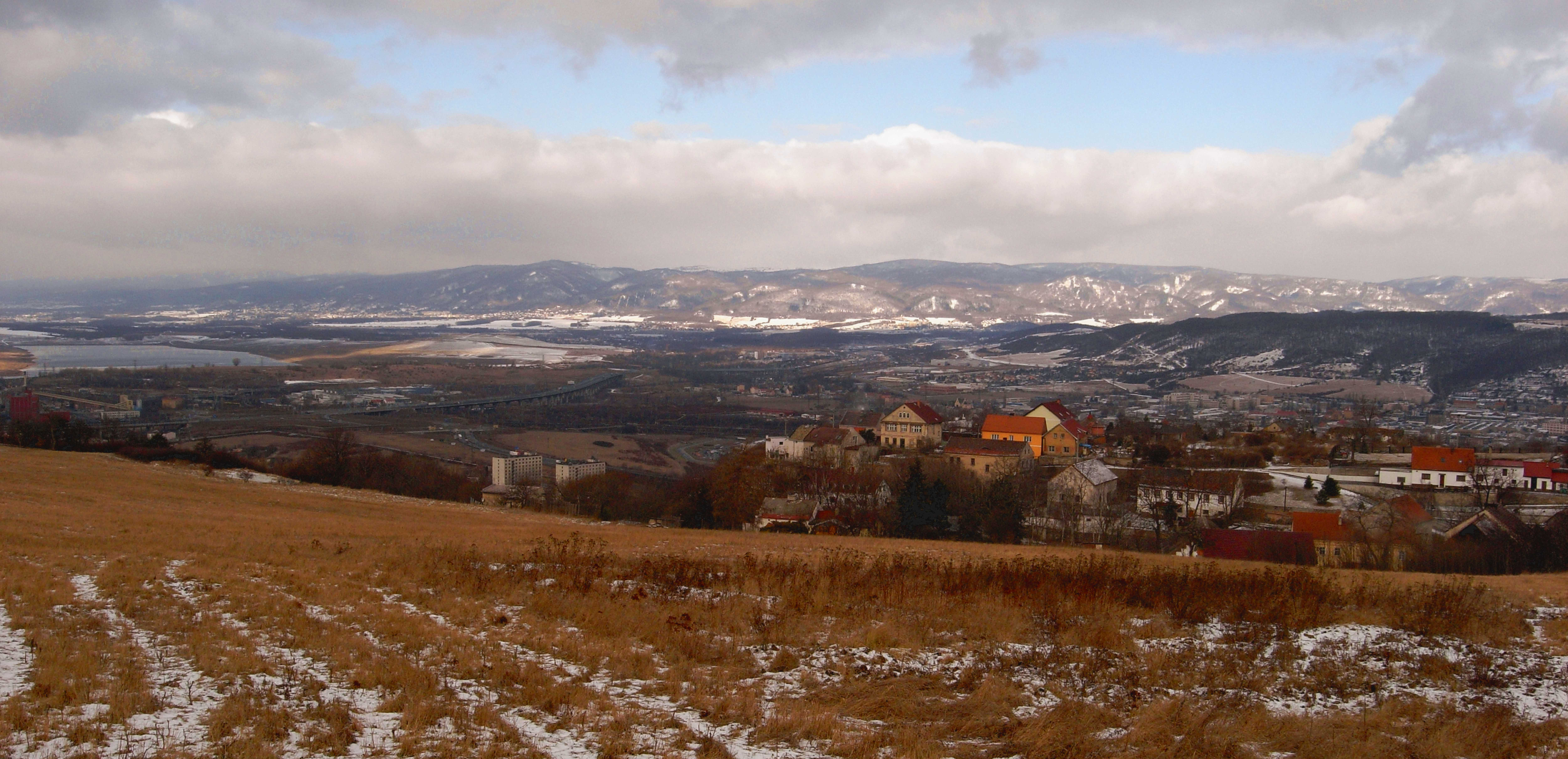 Northern bohemian basin near Ústí nad Labem, view at Ore Mountains (center) and of Ústí n.L. (right) - (Northern Bohemia, Czech Republic)